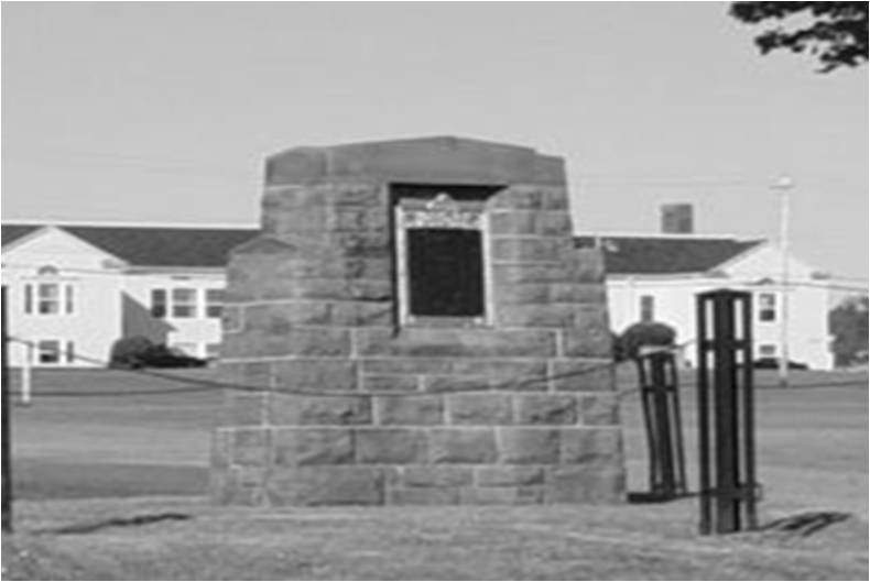 Naval Battle Off Tatamagouche Monument, Tatamagouche, Nova Scotia